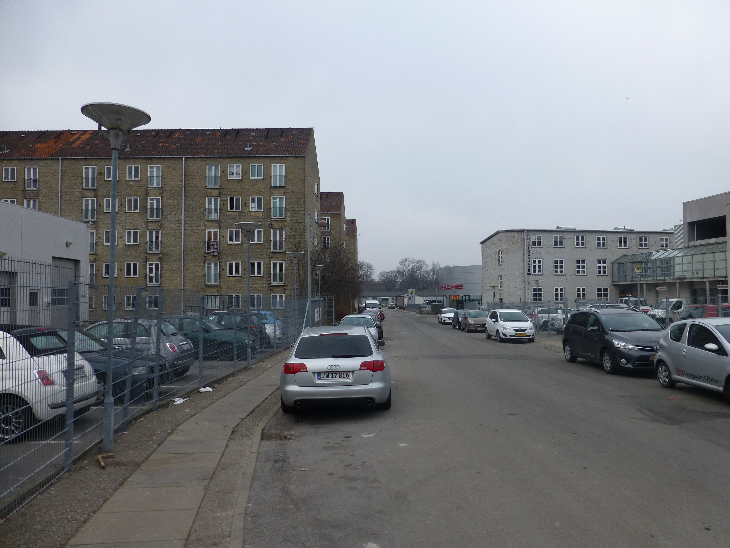 Banevingen is a street in Nørrebro in Copenhagen.